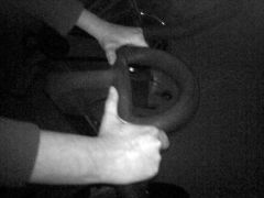 Hand position for indoor cycling